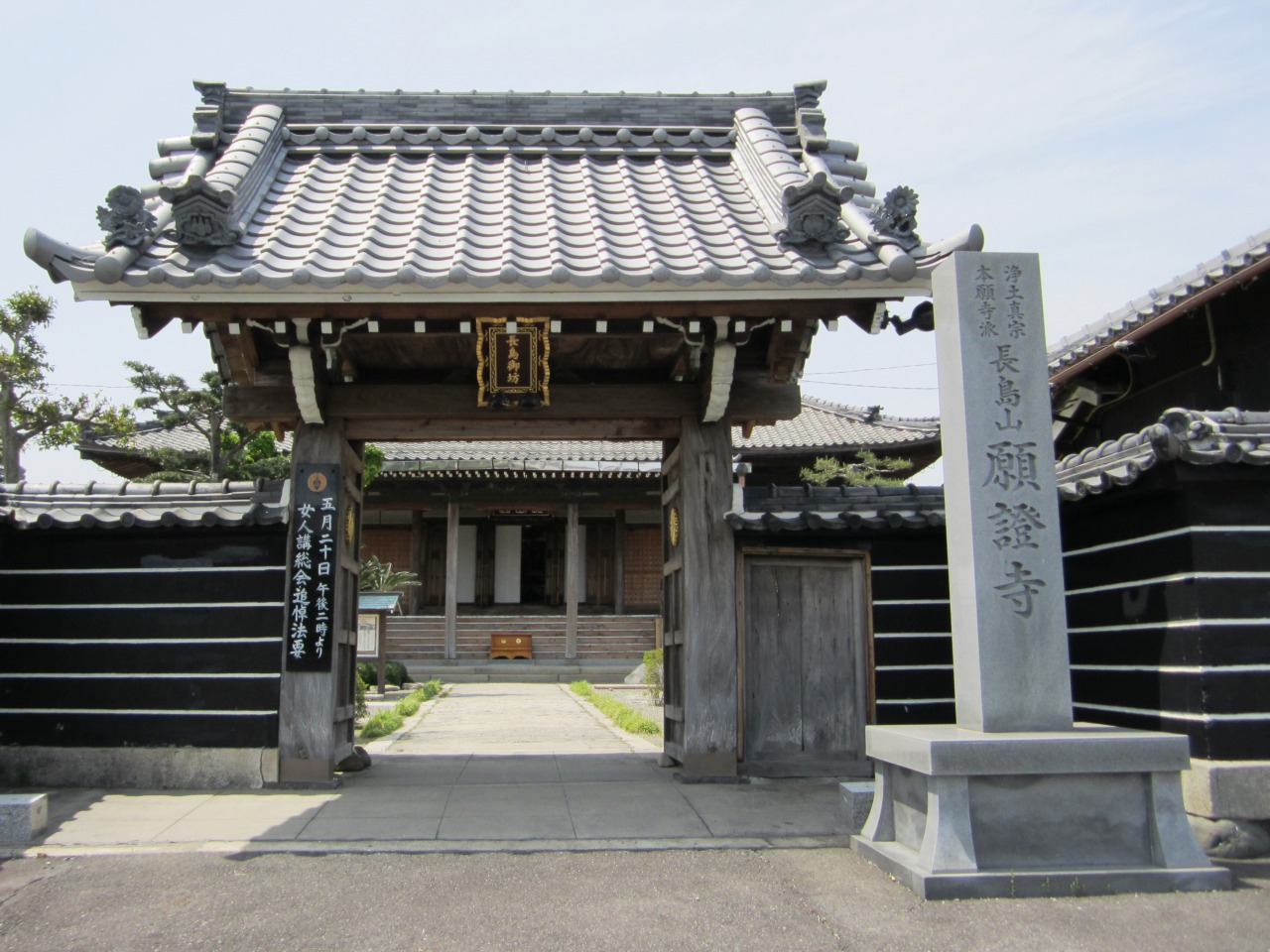 Ganshō-ji in Kuwana, Mie.